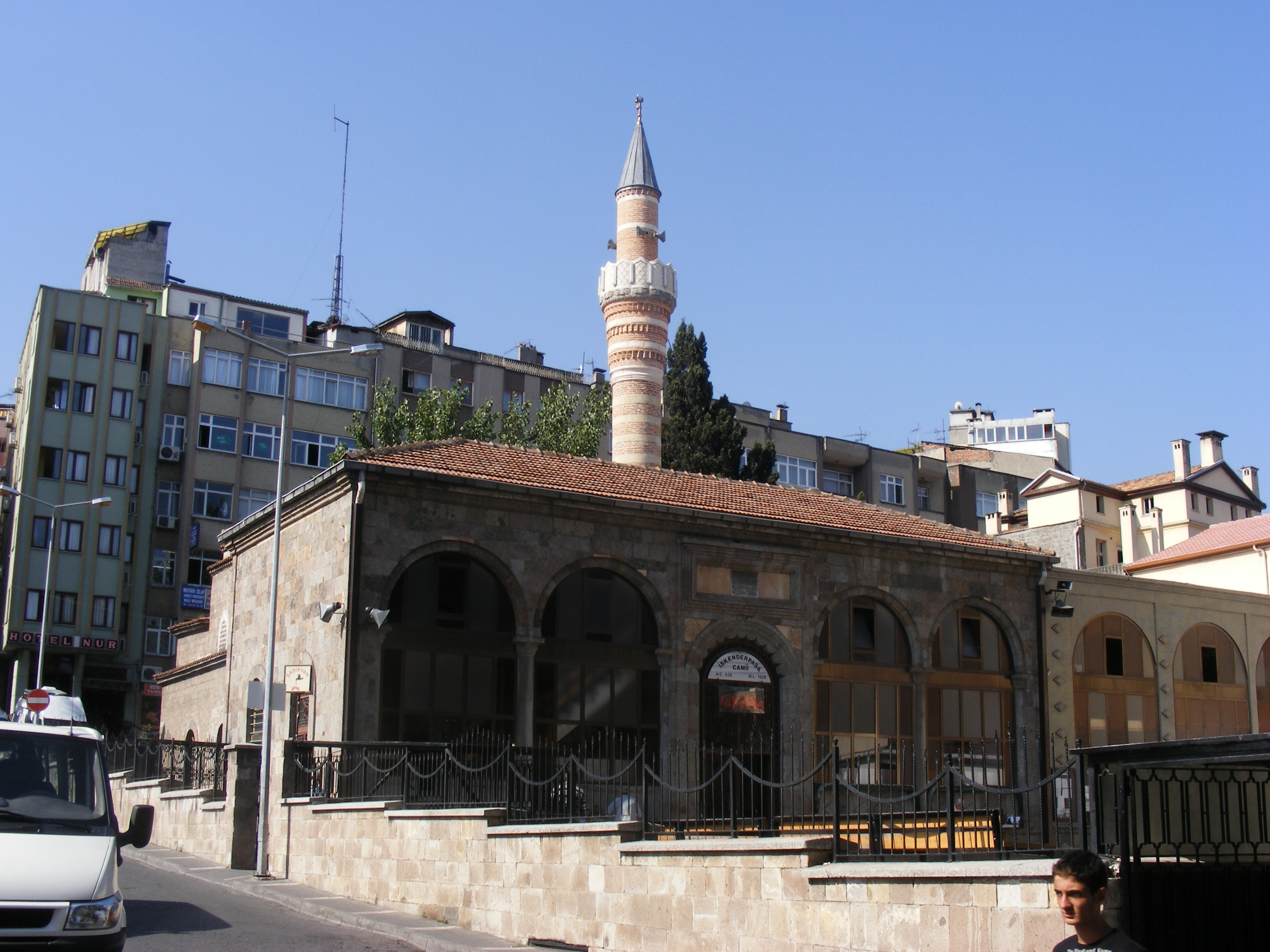 Iskender Pasha Camii, Trabzon